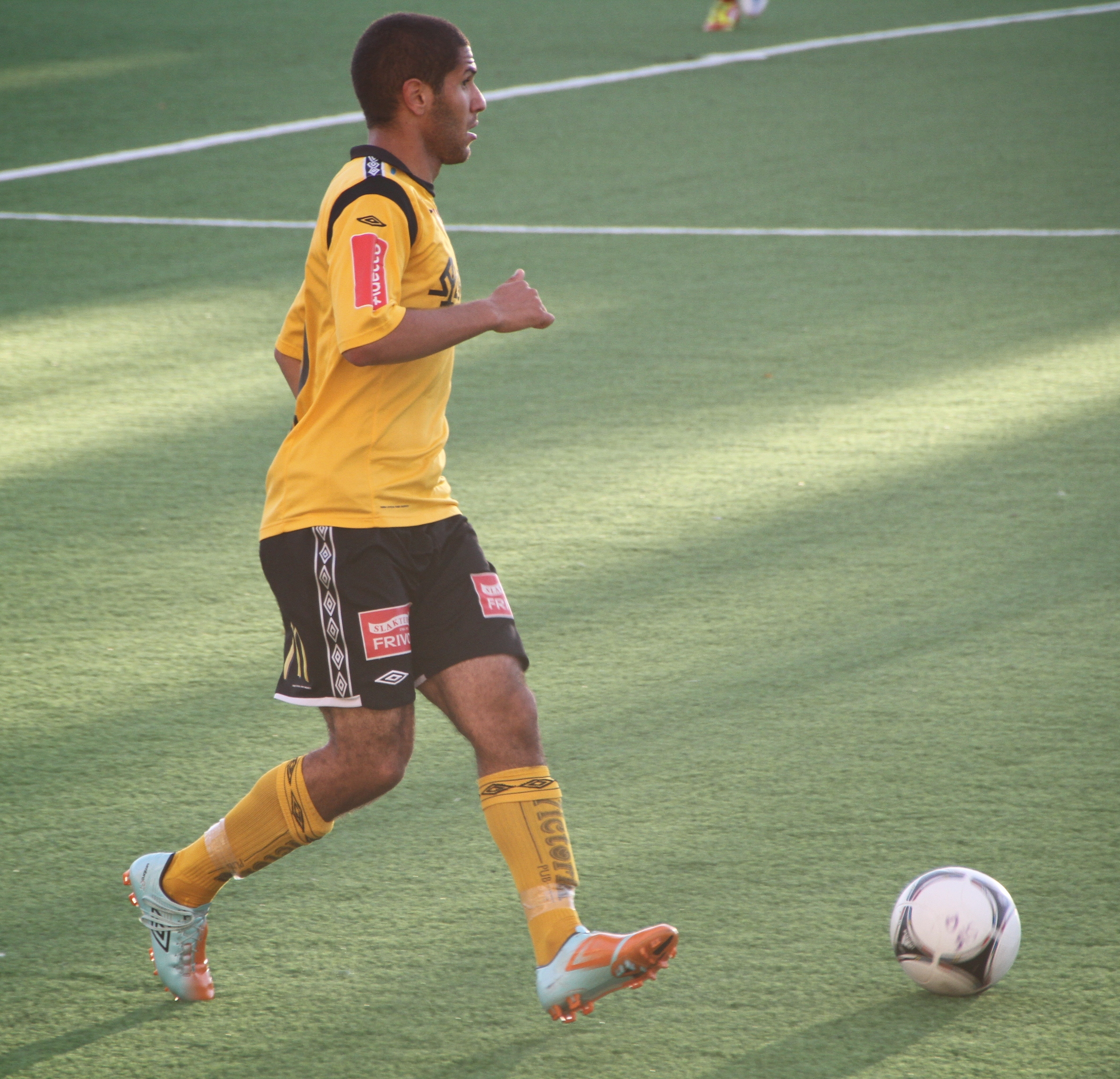 IK Start player in match against Strømmen IF, Akershus, Norway.